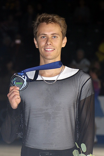 Michal Březina at the 2018 Skate America - Awarding ceremony